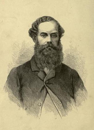 Portrait of William John Charles Möens (1833–1904). English writer, from English travelers and Italian brigands. A narrative of capture and captivity (1866) (US edition).